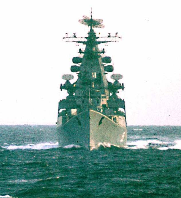 Soviet Kresta class (Project 1134) missile cruiser. Original description: A trip to the White Sea. We got there without being spotted. One sweep of the radar brought Russian ships and aircraft by the score. Tailed here by Kresta class cruiser March 1970.